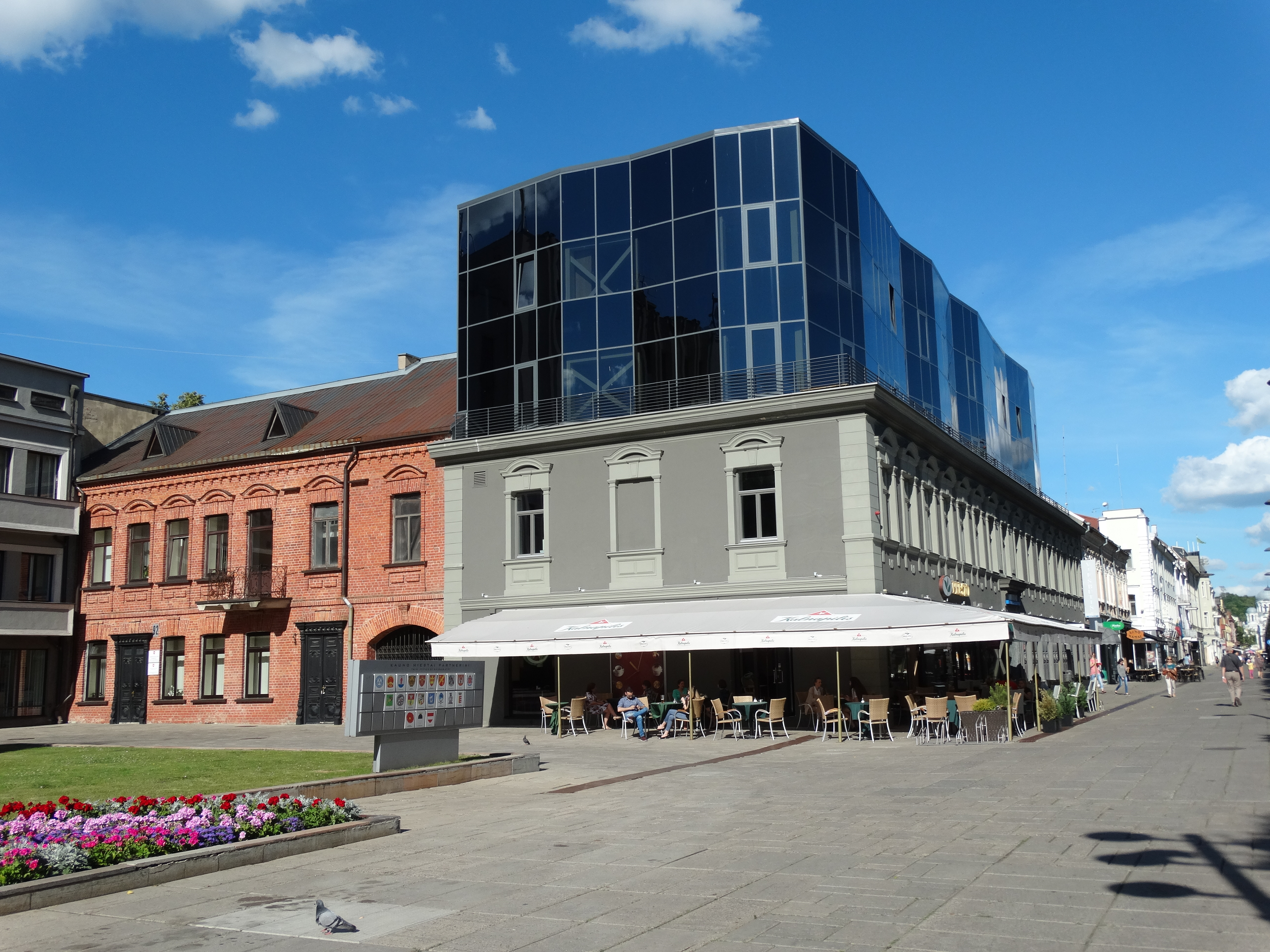 The glass superstructure on the historic building, Kaunas, Lithuania